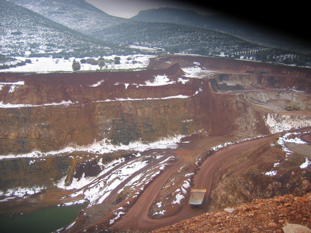 GMMSA LARCO, ferronickel ore mine in Magoula viotias, Central Greece